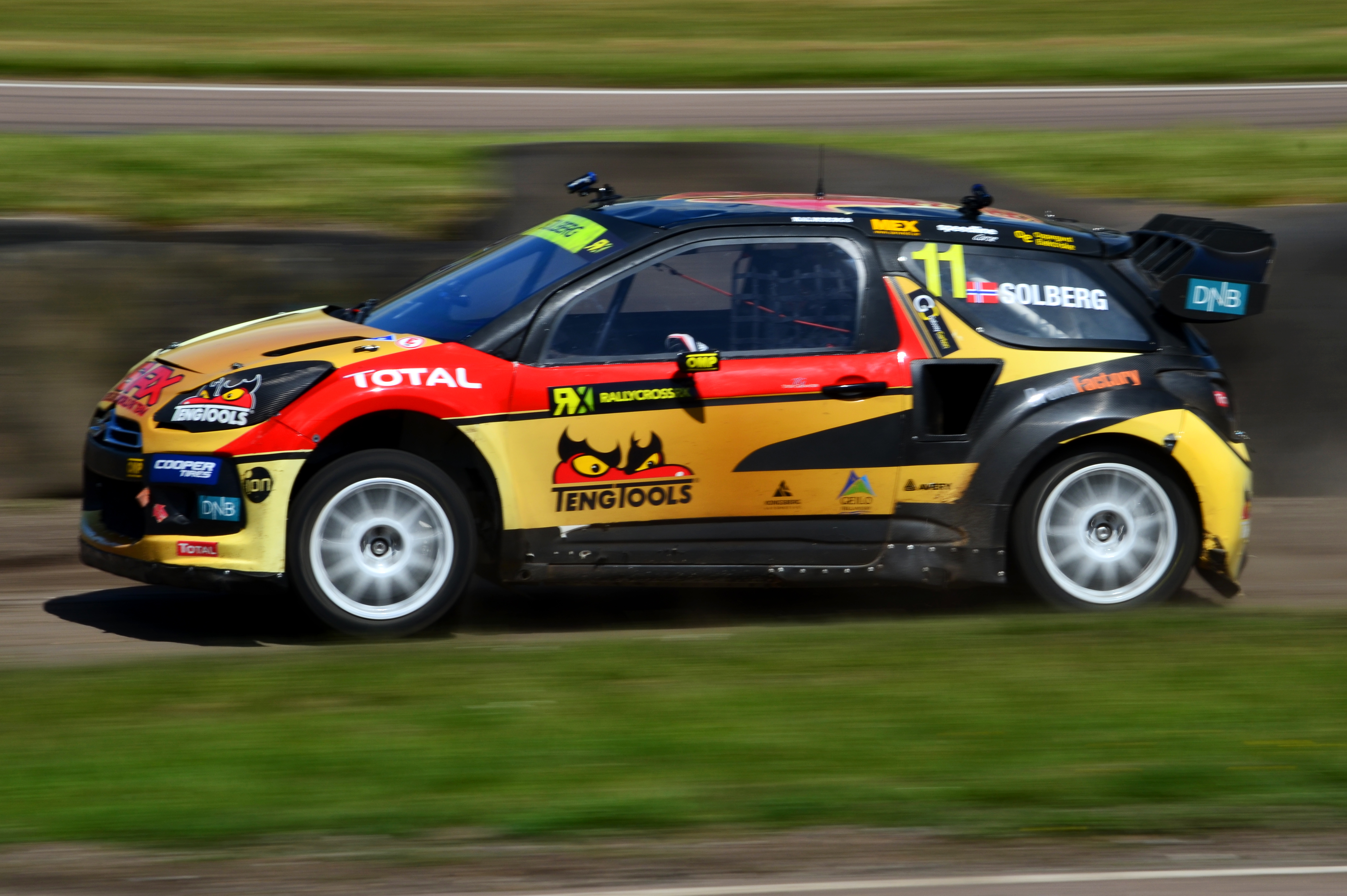 Petter Solberg driving the PSRX Citroën DS3 at Lydden Hill during round 2 of the 2014 FIA World Rallycross Championship.